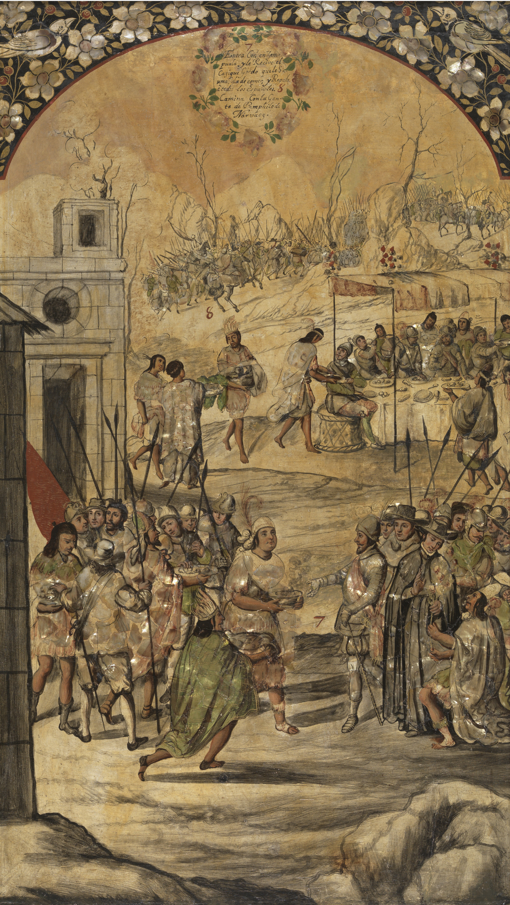 Fourth table of the 24 tables painted by the new Spanish artists Juan González and Miguel González. The paintings represent Hernán Cortés' entrance into Mexico, from the sinking of his carracks in San Juan de Ulúa to the fall of the city of Tenochtitlan. This painting represents Cortés' entrance into the city of Cempoala, where he was welcomed by its ruler, Xicomecoatl (also known as Chicomácatl or "Fat Cacique").